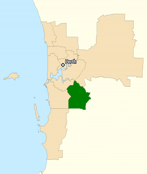 Incorporates or developed using Administrative Boundaries ©PSMA Australia Limited licensed by the Commonwealth of Australia under Creative Commons Attribution 4.0 International licence (CC BY 4.0). Derived from State and Territory Boundaries from the Australian Bureau of Statistics under Creative Commons Attribution 2.5 Australia license (CC BY 2.5 AU)